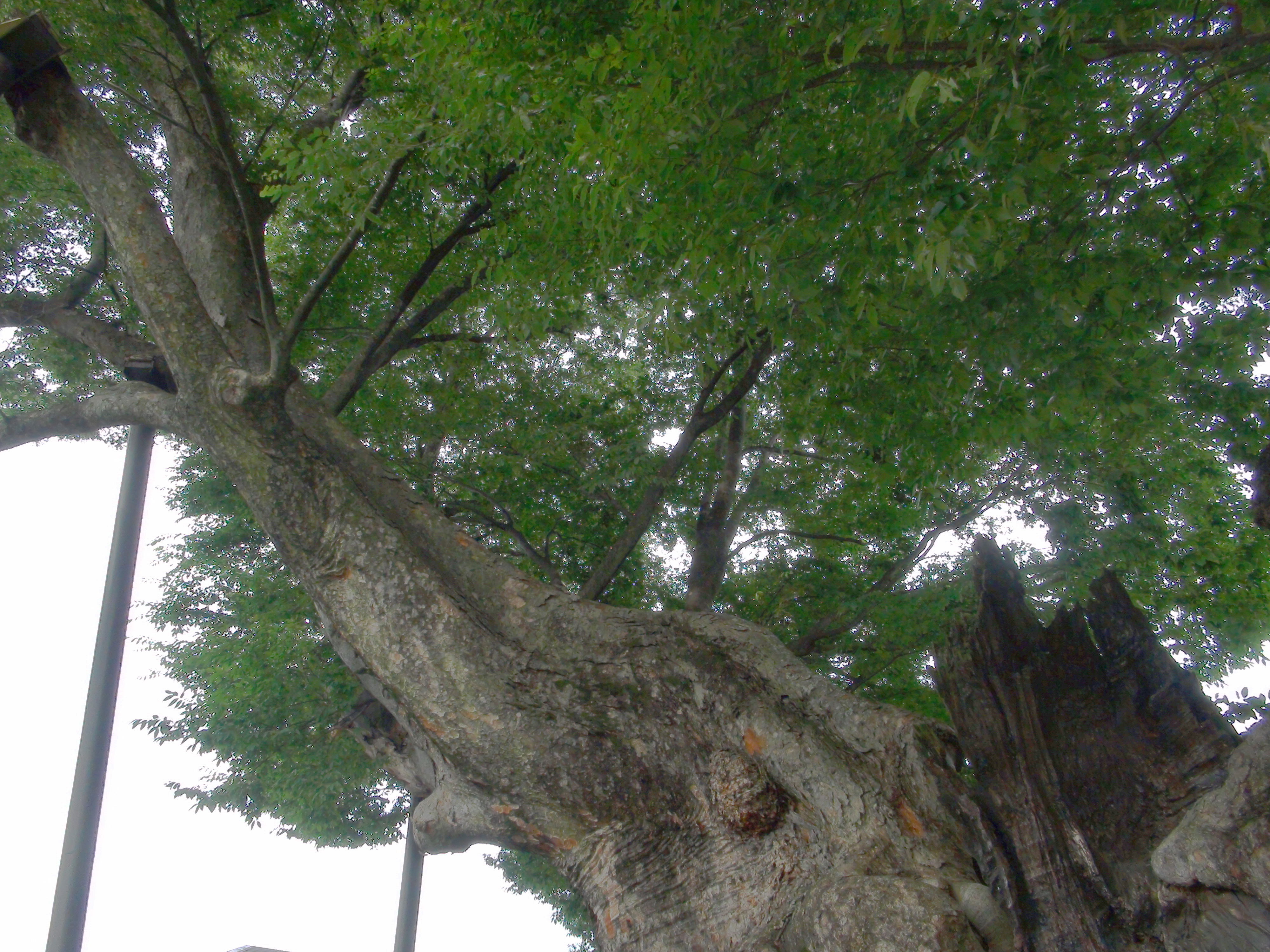 Mitsue-no-Okeyaki Zelkova serrata Natural monument of Japan